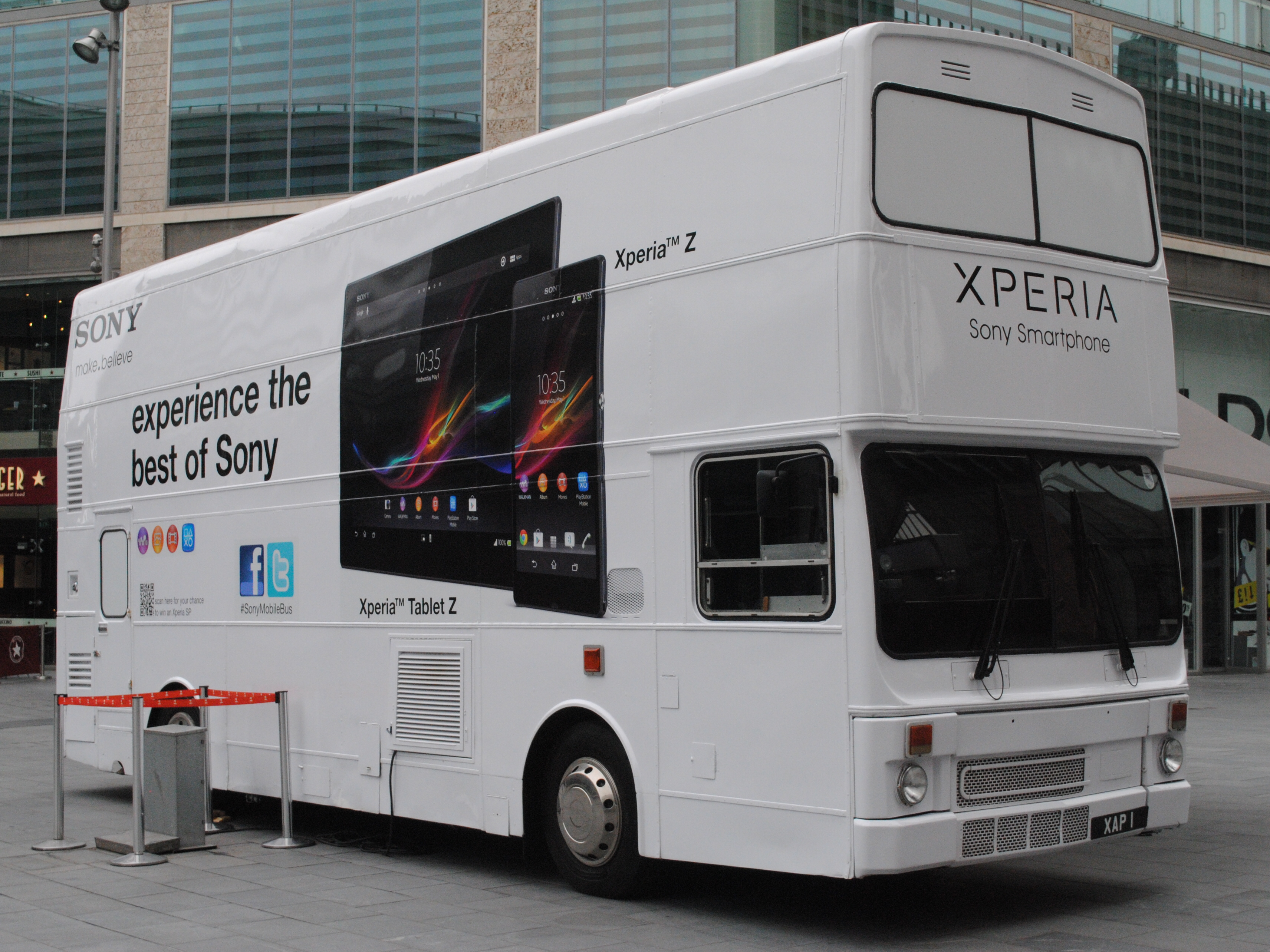 MCW Metrobus. ex MTL Lancashire Travel 3108 and new to London Transport M108 BYX108V